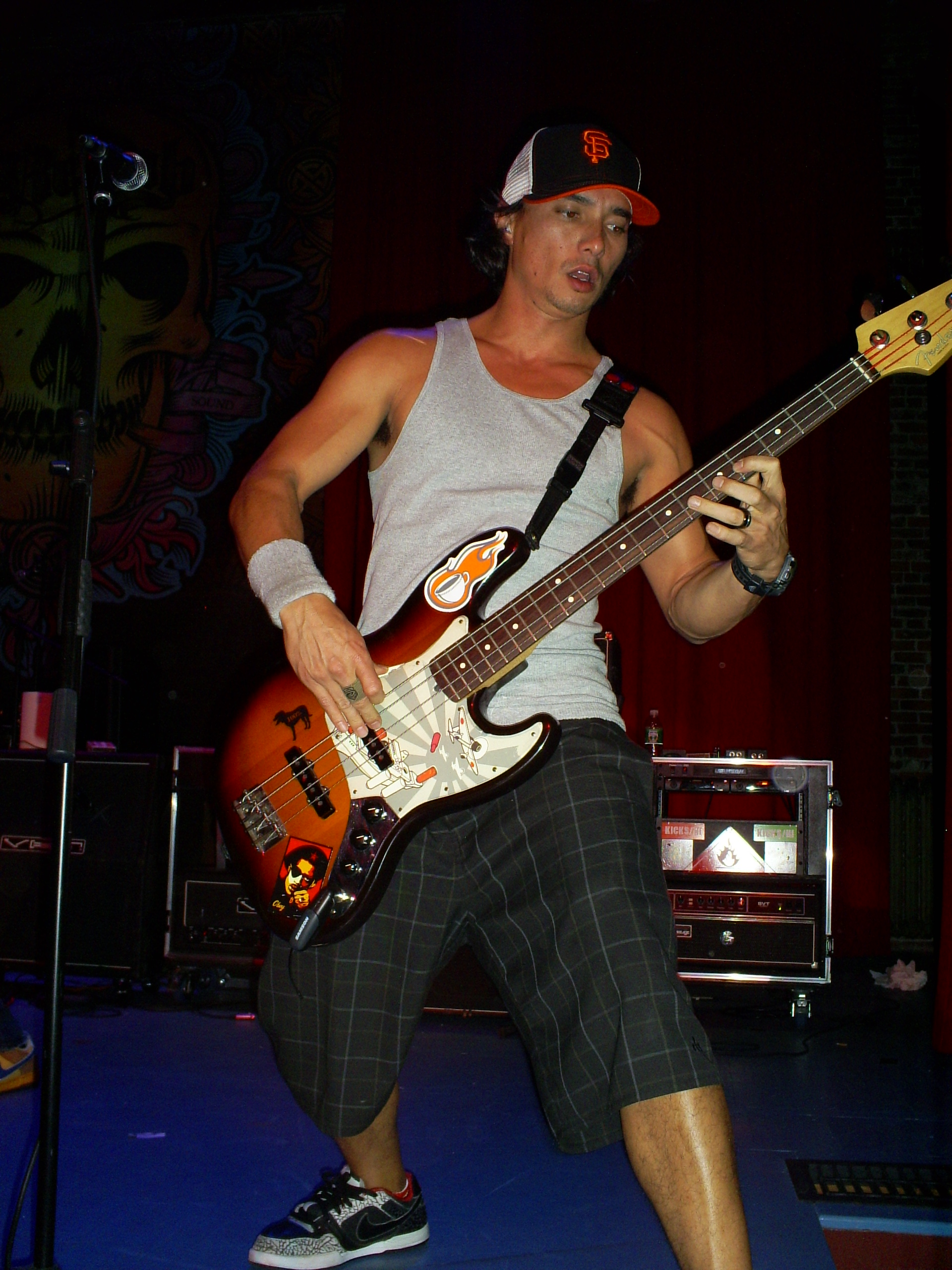 Hano Leathers of the band Rehab